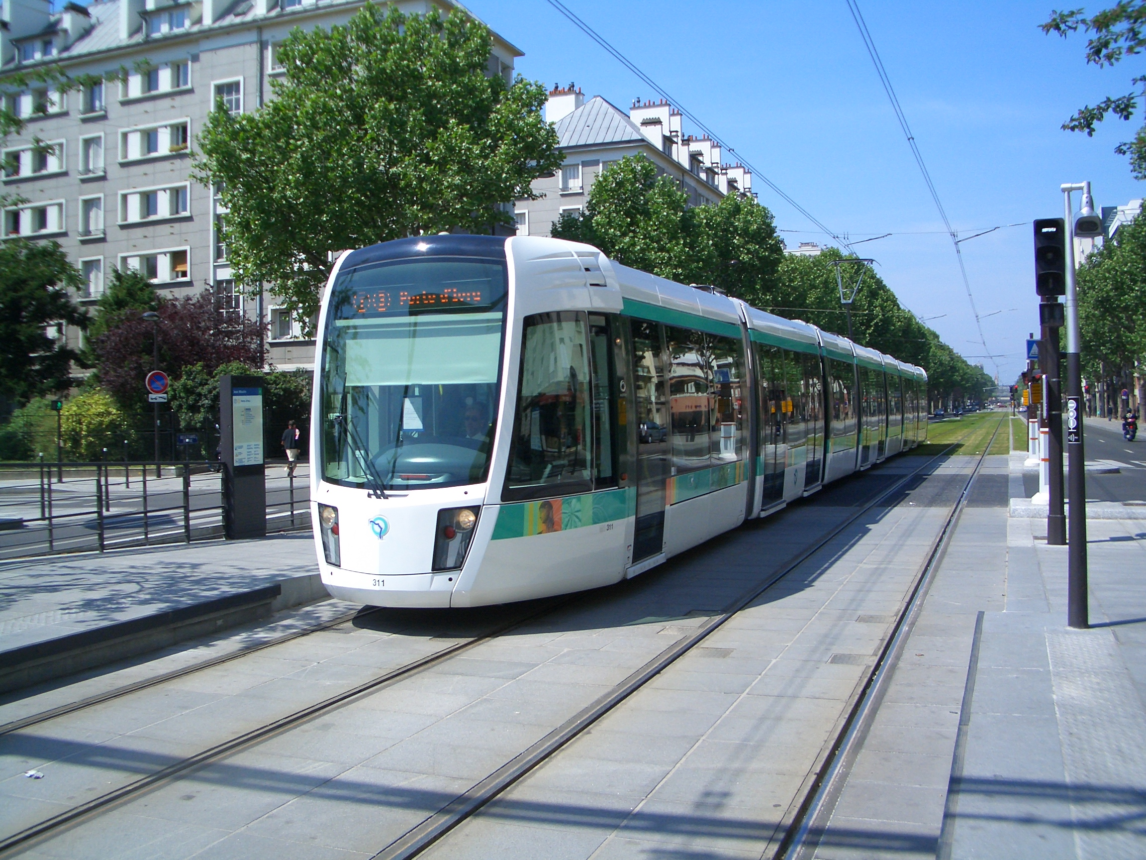 Tramway in Paris